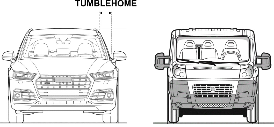 Car Tumblehome